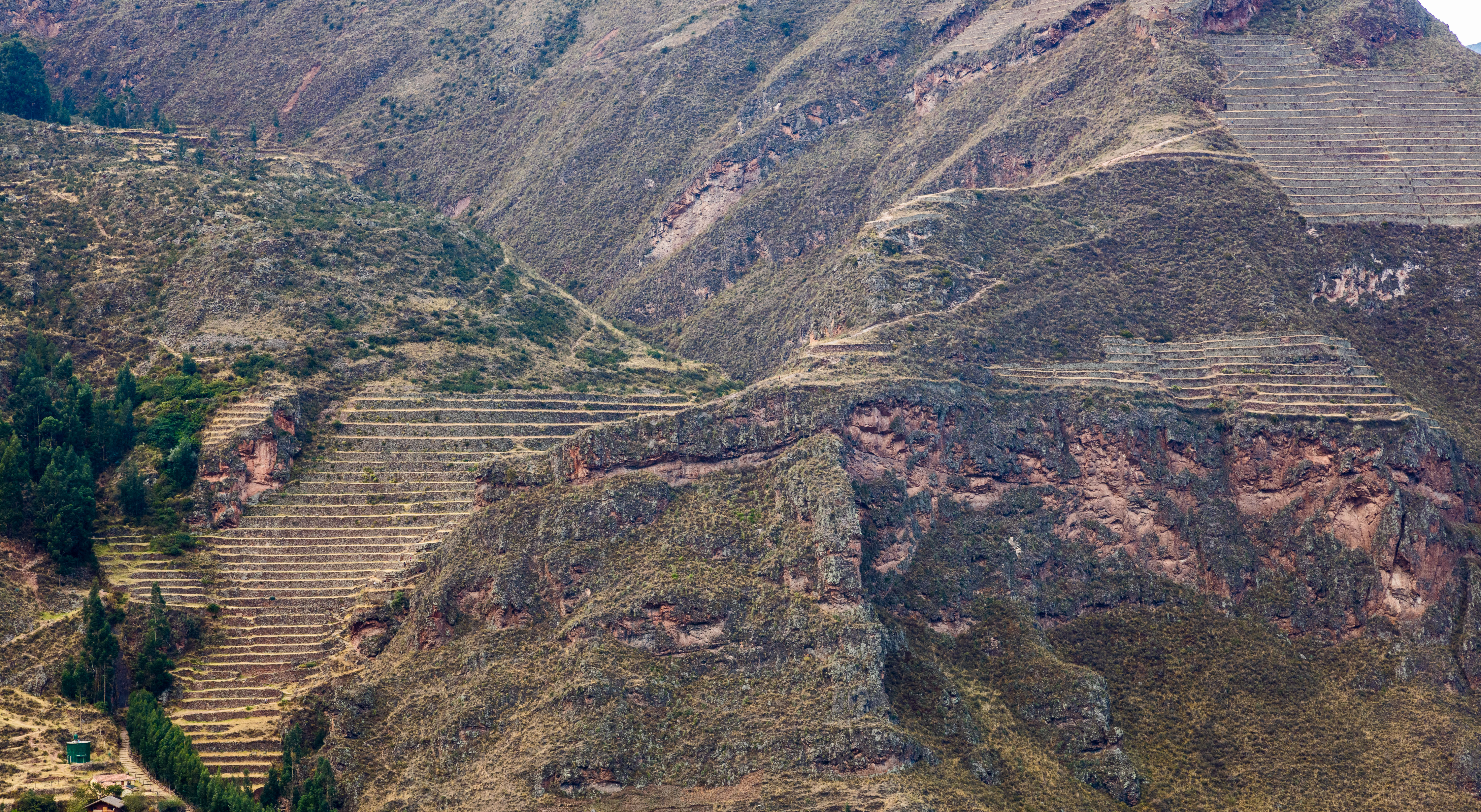 Taray, Cuzco, Peru